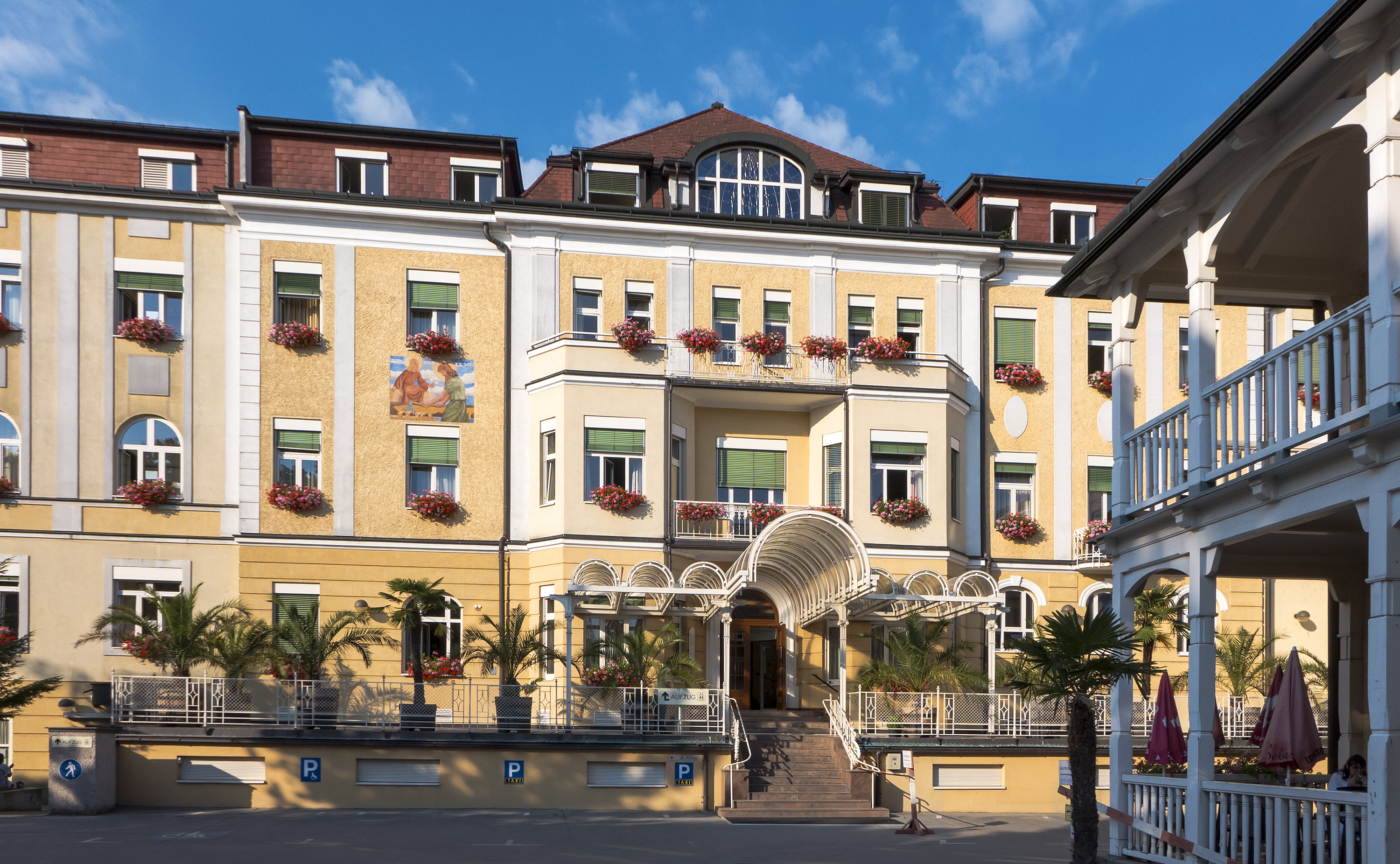 Hospital St. Josef Krankenhaus in Vienna 13